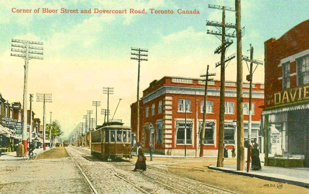 Postcard of a streetcar at the corner of Dovercourt and Bloor.